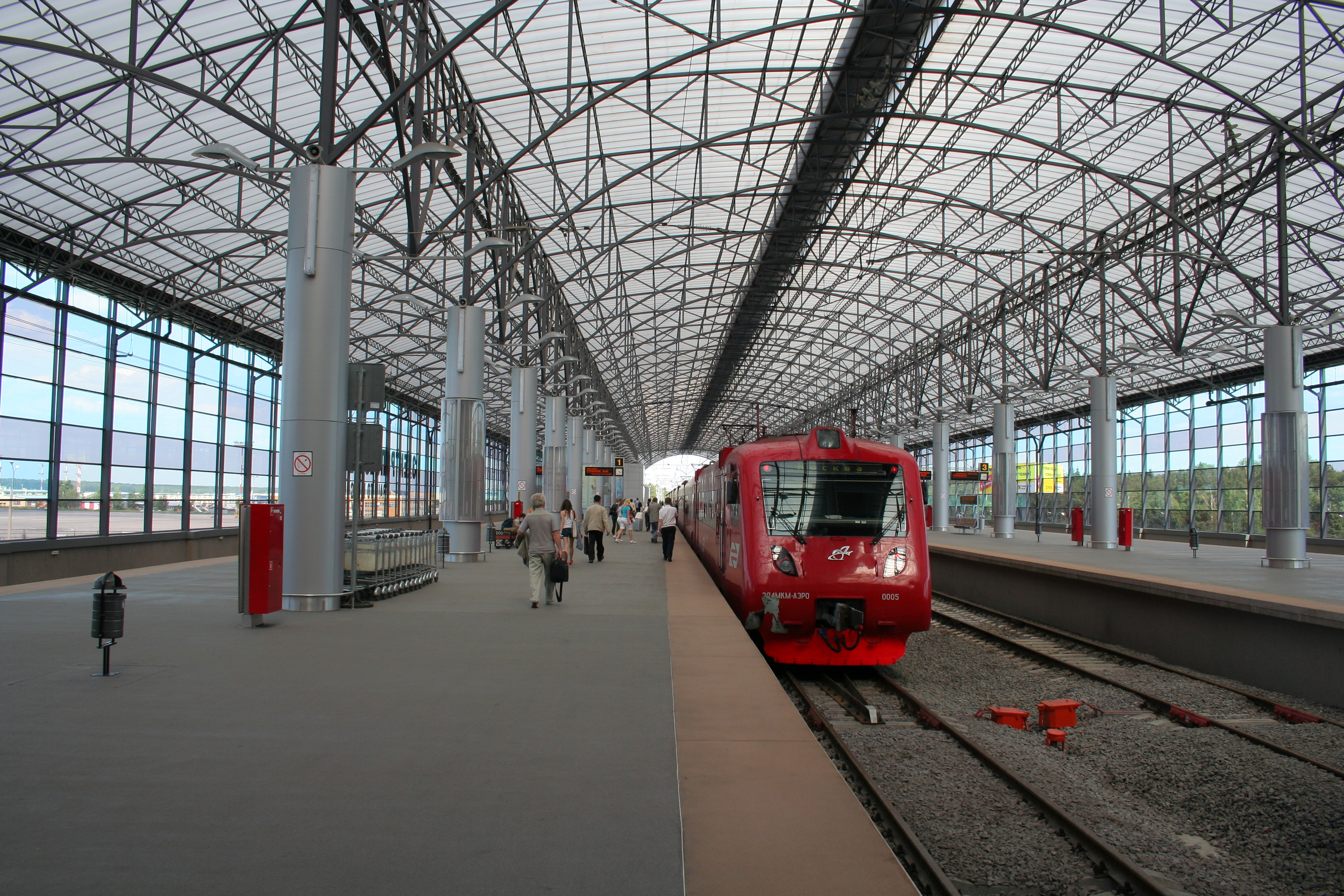 Sheremetyevo Airport of Moscow. Aeroexpress Terminal. The platforms.